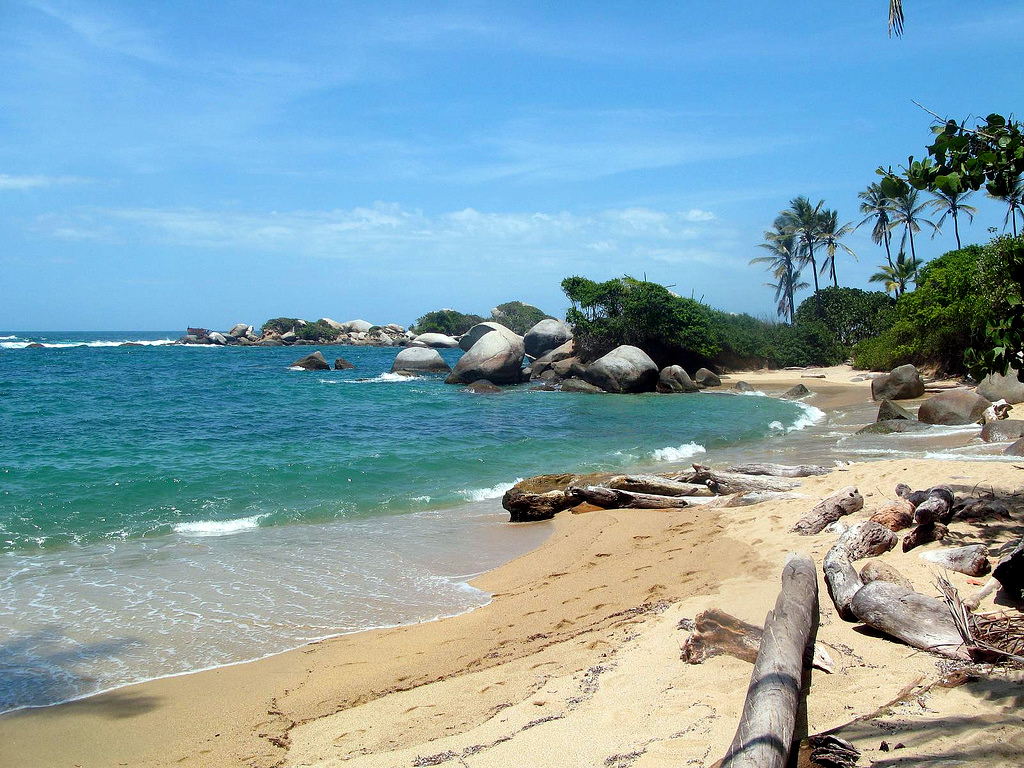 Arrecifes beach in the Tayrona National Park in Santa Marta, Colombia